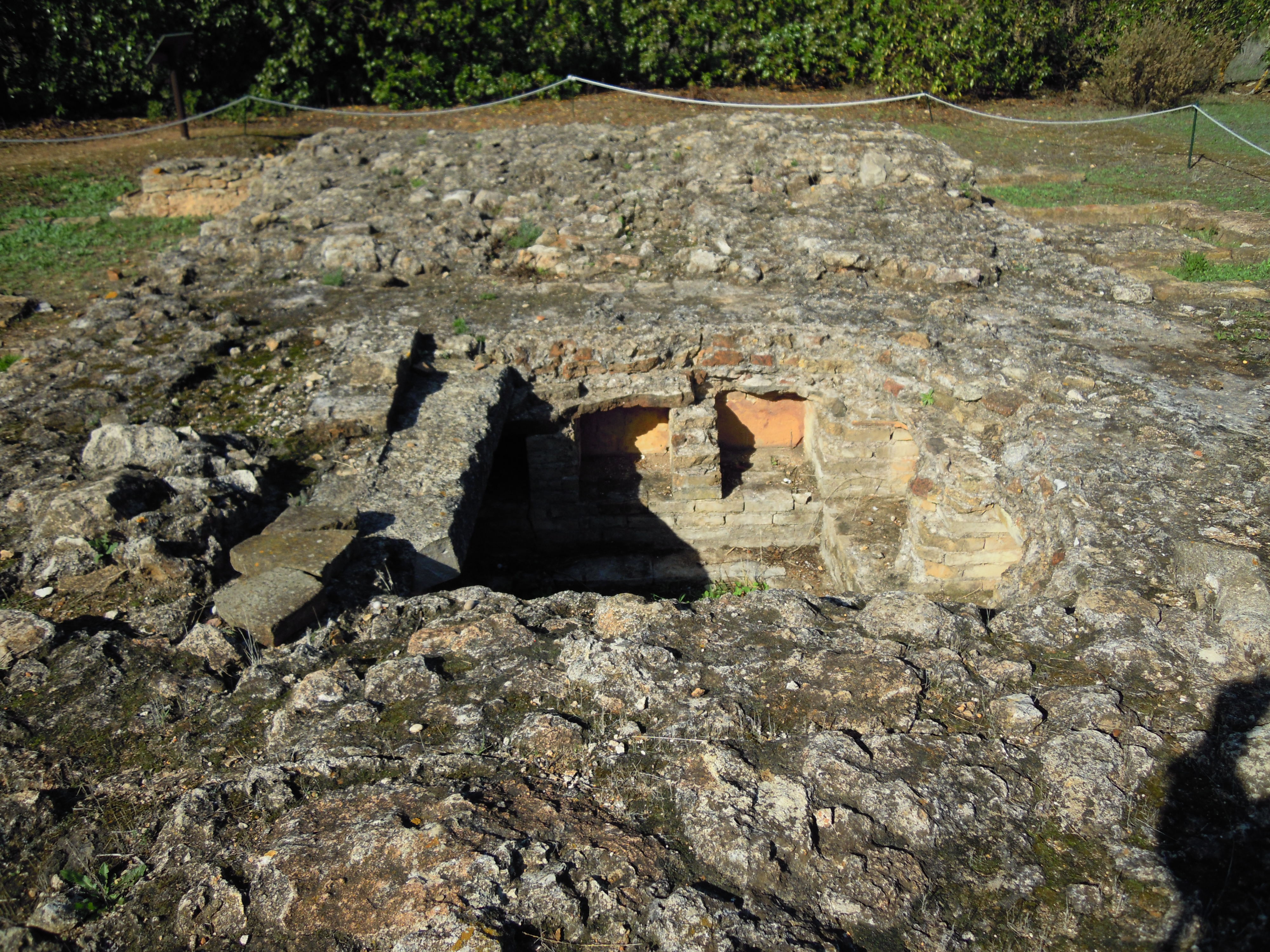 The Necropolis in the north east of the Roman Ruins of the Villa at Cerro da Vila in the resort of Vilamoura, Loule, Algarve, Portugal. The Funeral Niches are still set in the walls of the Necropolis. This monument is classified as Imóvel de Interesse Público.